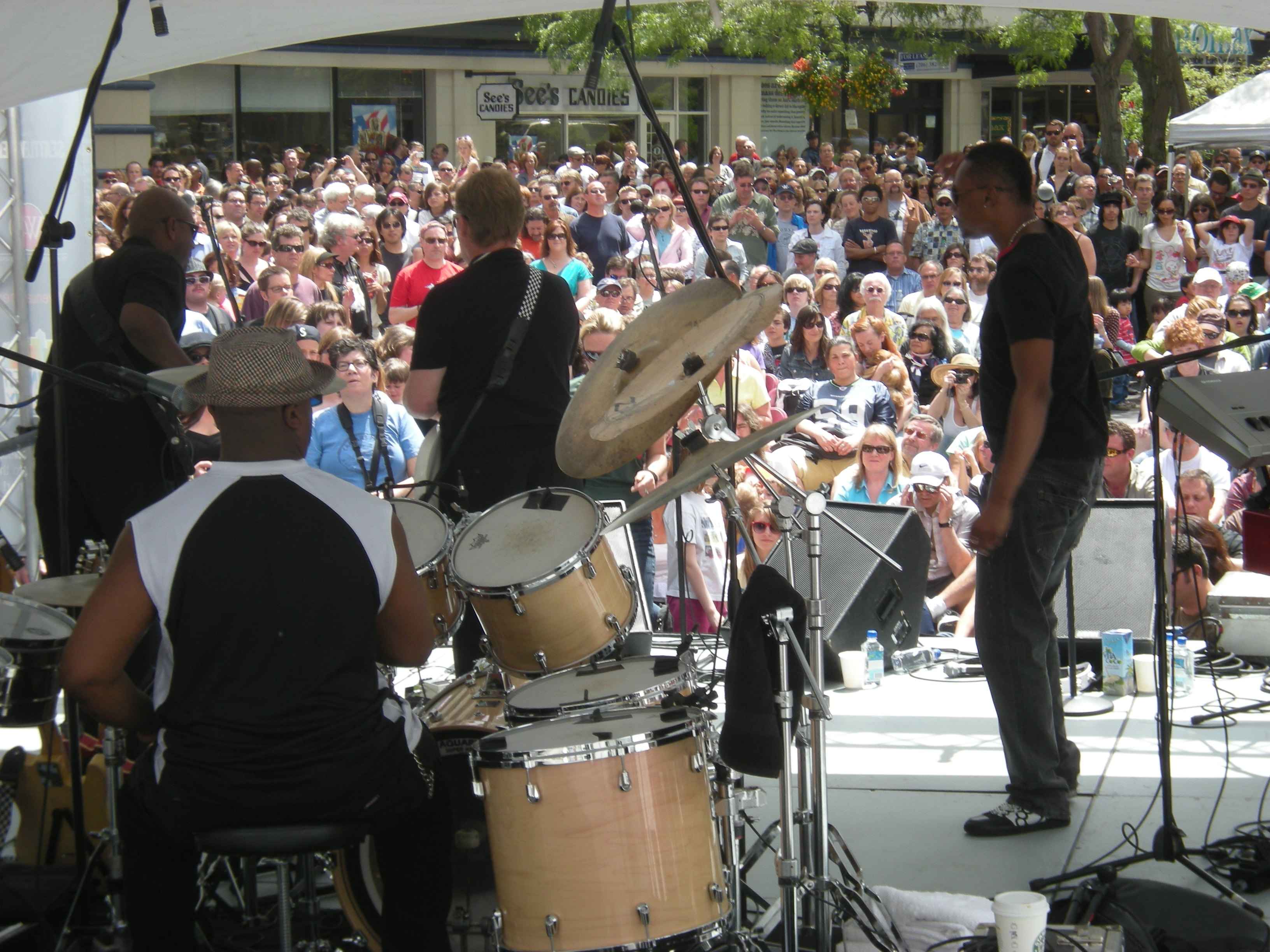 The English Beat / The Beat (Dave Wakeling's LA- based revival of the Two-Tone band) playing at Seattle's Westlake Park.